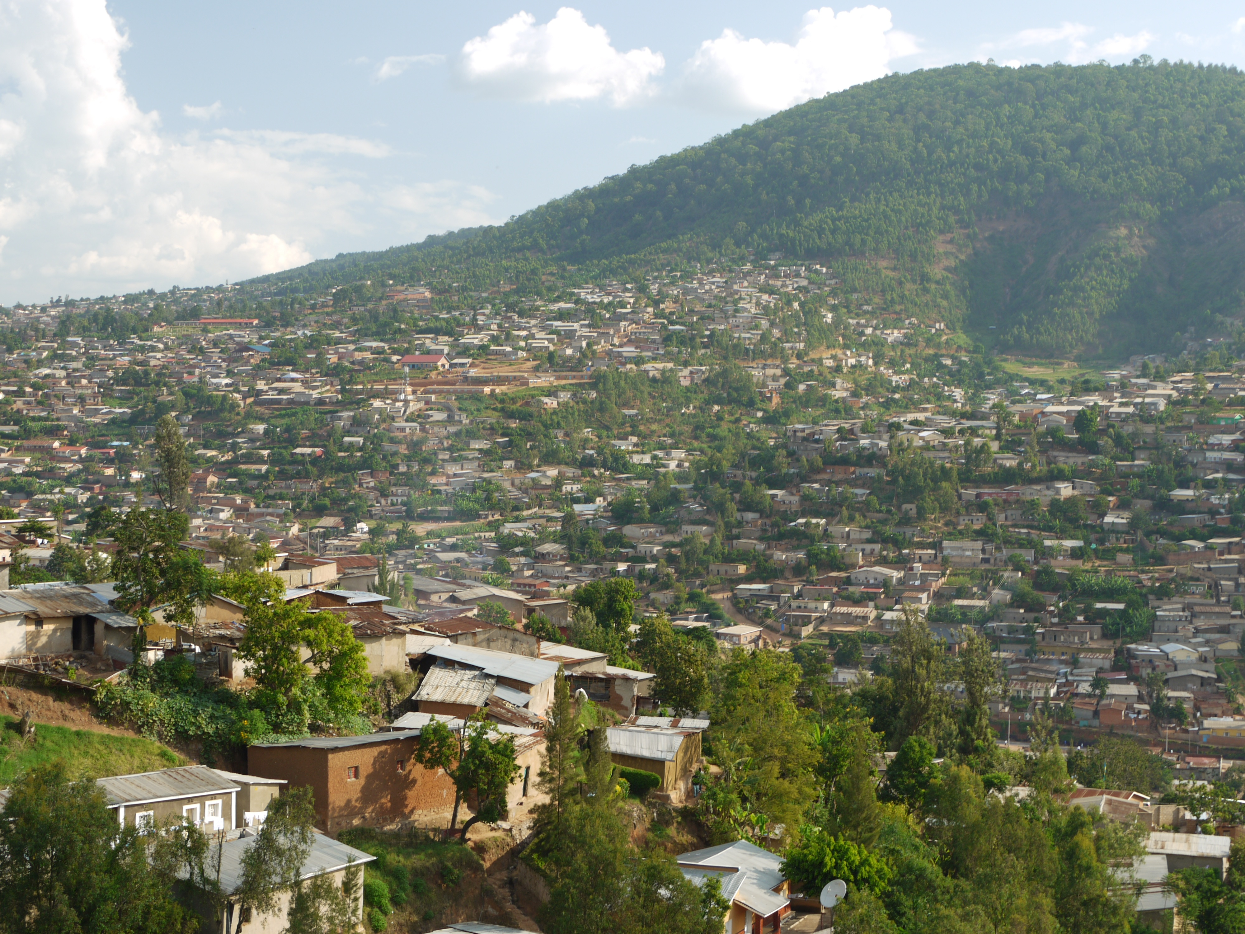 This is an image of a suburb in Kigali